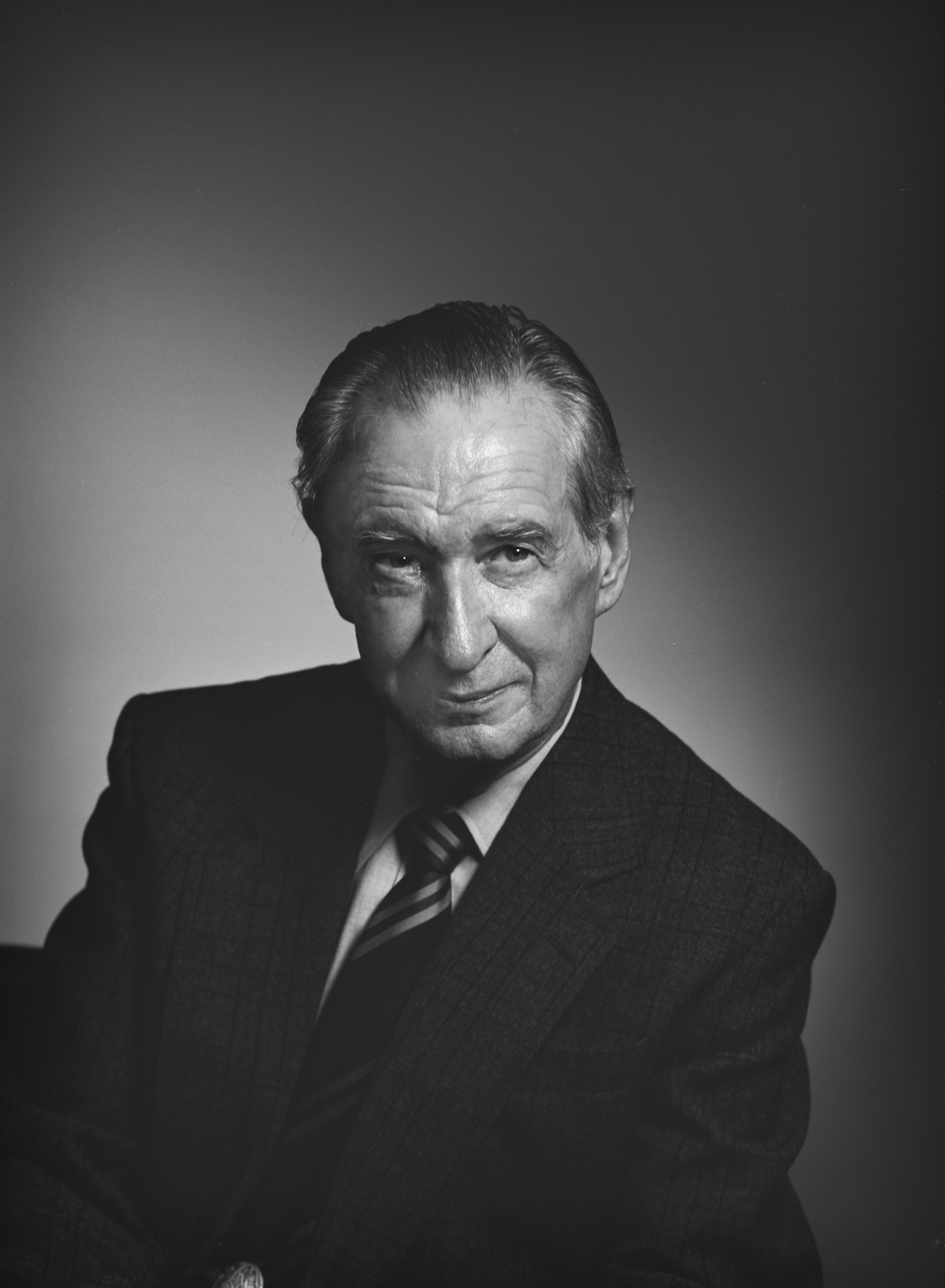 Photograph of the Finnish physician and professor Urpo Siirala (1908–1982).